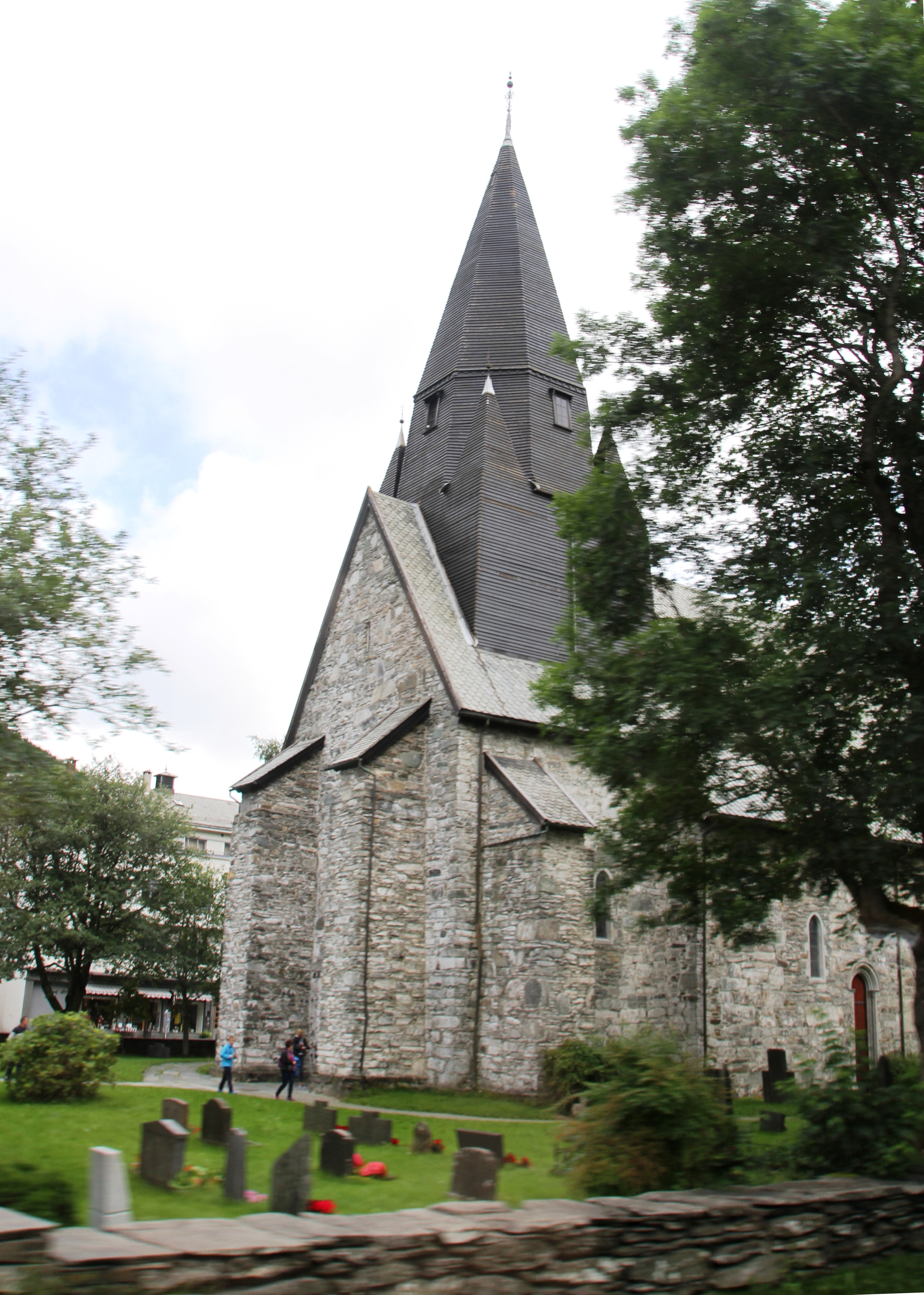 The medieval Church in Voss, Norway